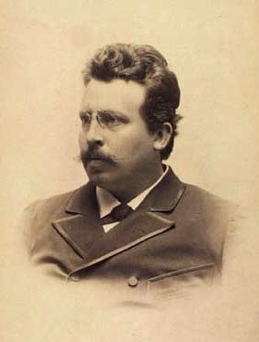 Frederik Laurentius Feilberg aka Lorry Feilberg (1859-1917), Danish restaurateur, journalist, editor etc.